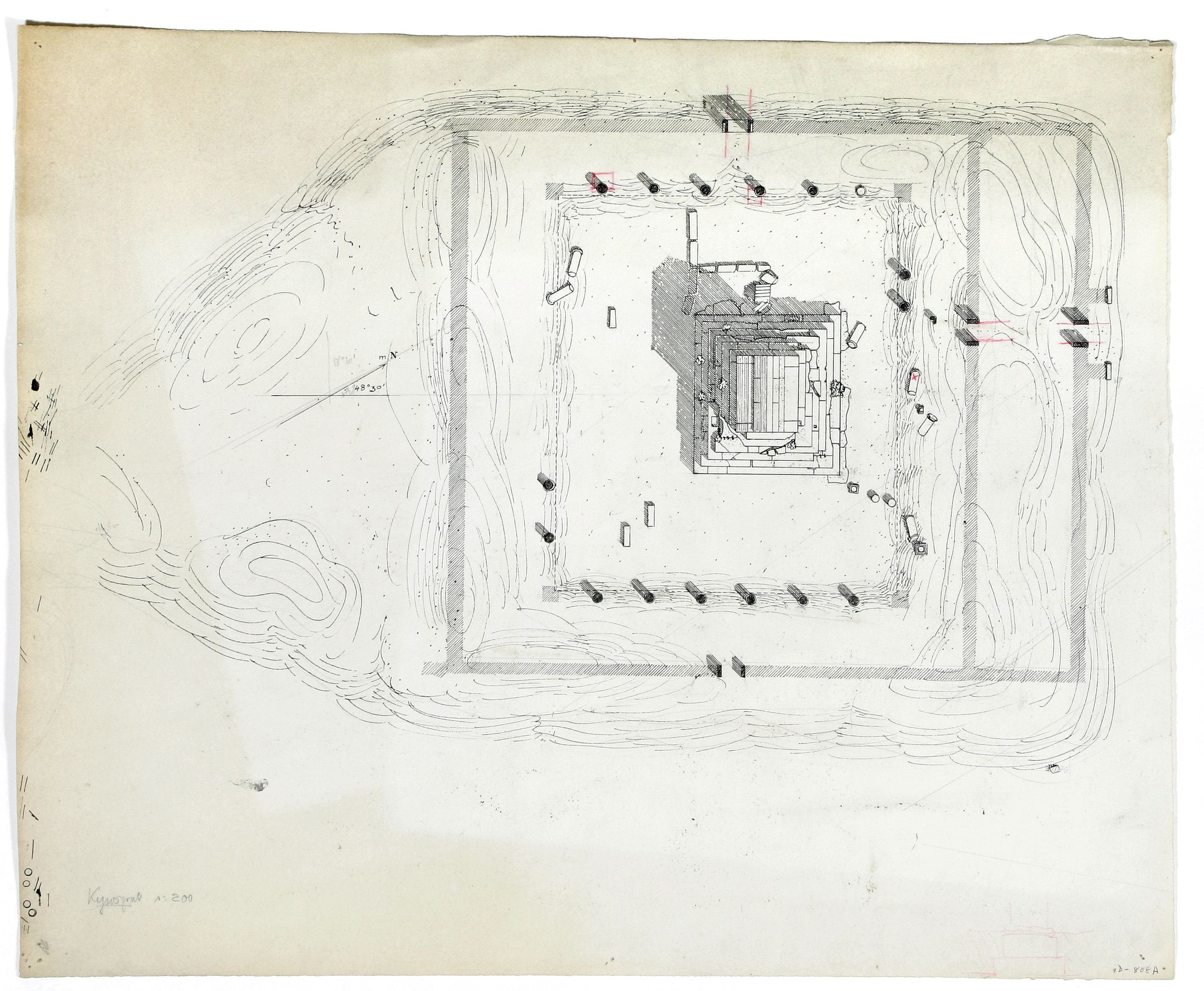 Ernst Emil Herzfeld drawing of the Tomb of Cyrus the Great at Pasargadae, Iran.